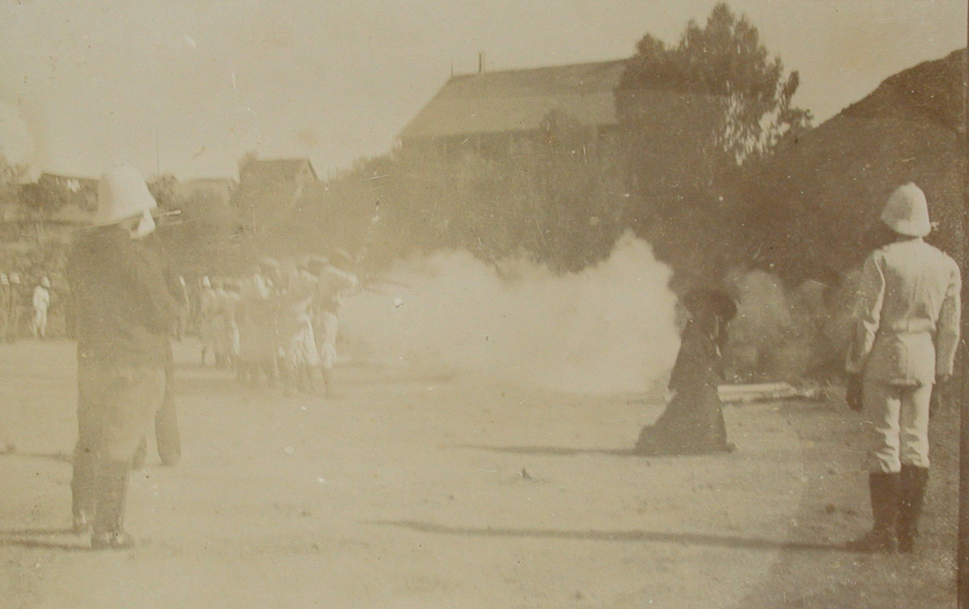 Minister of the Interior Rainandriampandry and Prince Ratsimamanga (the Queen's uncle) were executed on October 15, 1896. This picture is taken on the exact moment the shoots are fired off. There are soldiers present during the execution. See also A02-112 to 115 and A06-451.